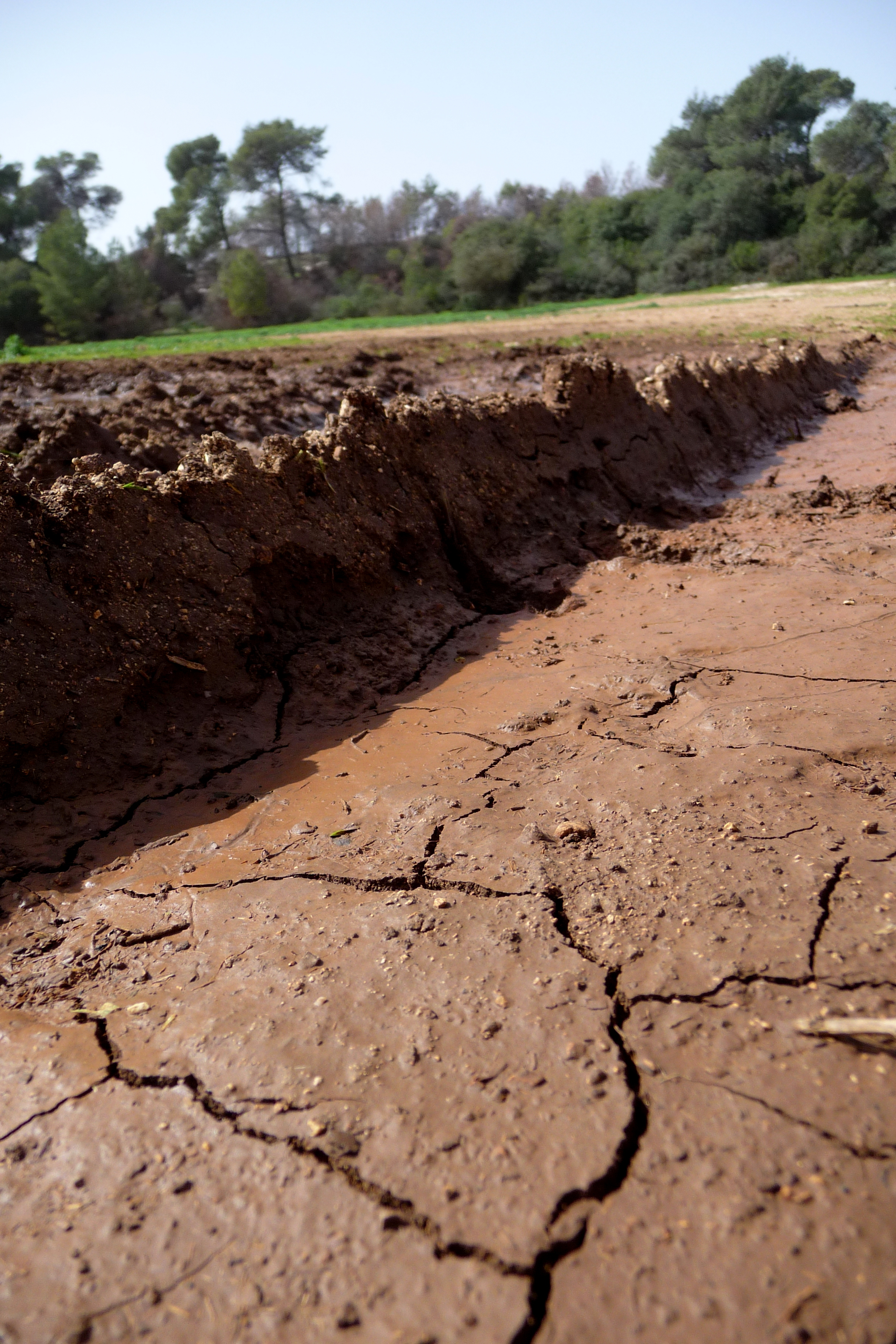 Carmel Park